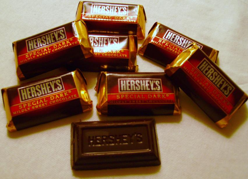 Miniature-sized Hershey's Special Dark chocolate candy bars